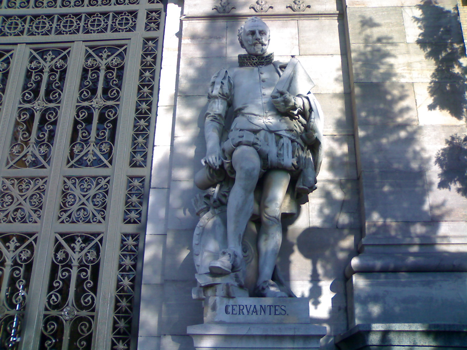 Statue of Miguel de Cervantes (1547–1616) at the entrance of the National Library of Spain, in Madrid. Sculpted in Italian white marble by Joan Vancell Puigcercós in 1892.